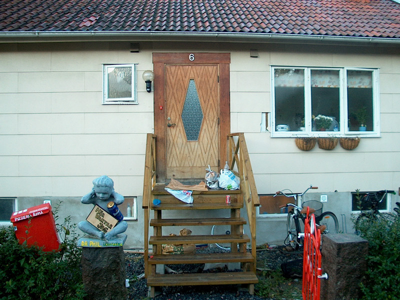 A student collective household in Gothenburg.